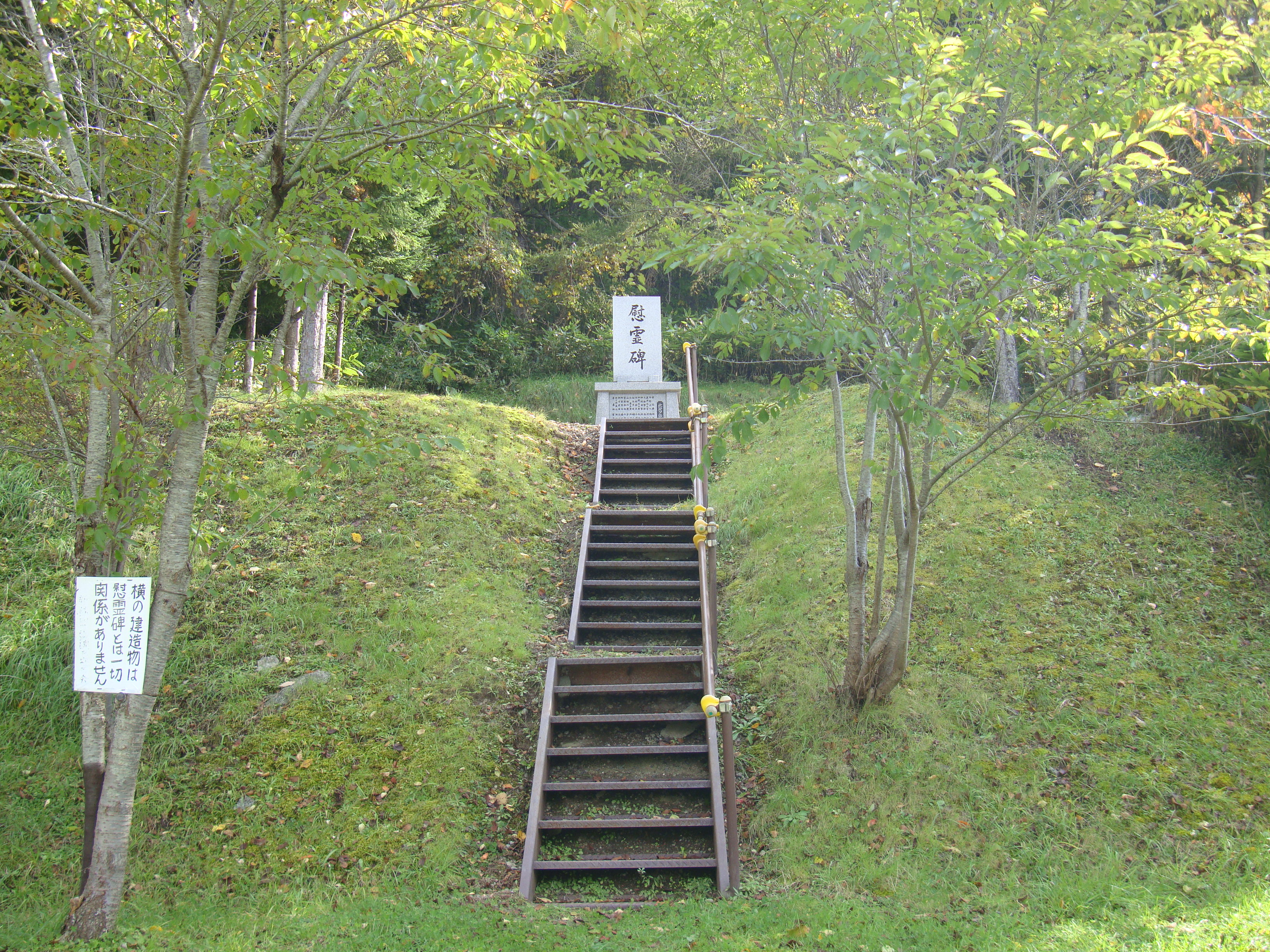 Hokutan Yūbari Shin-Tankō